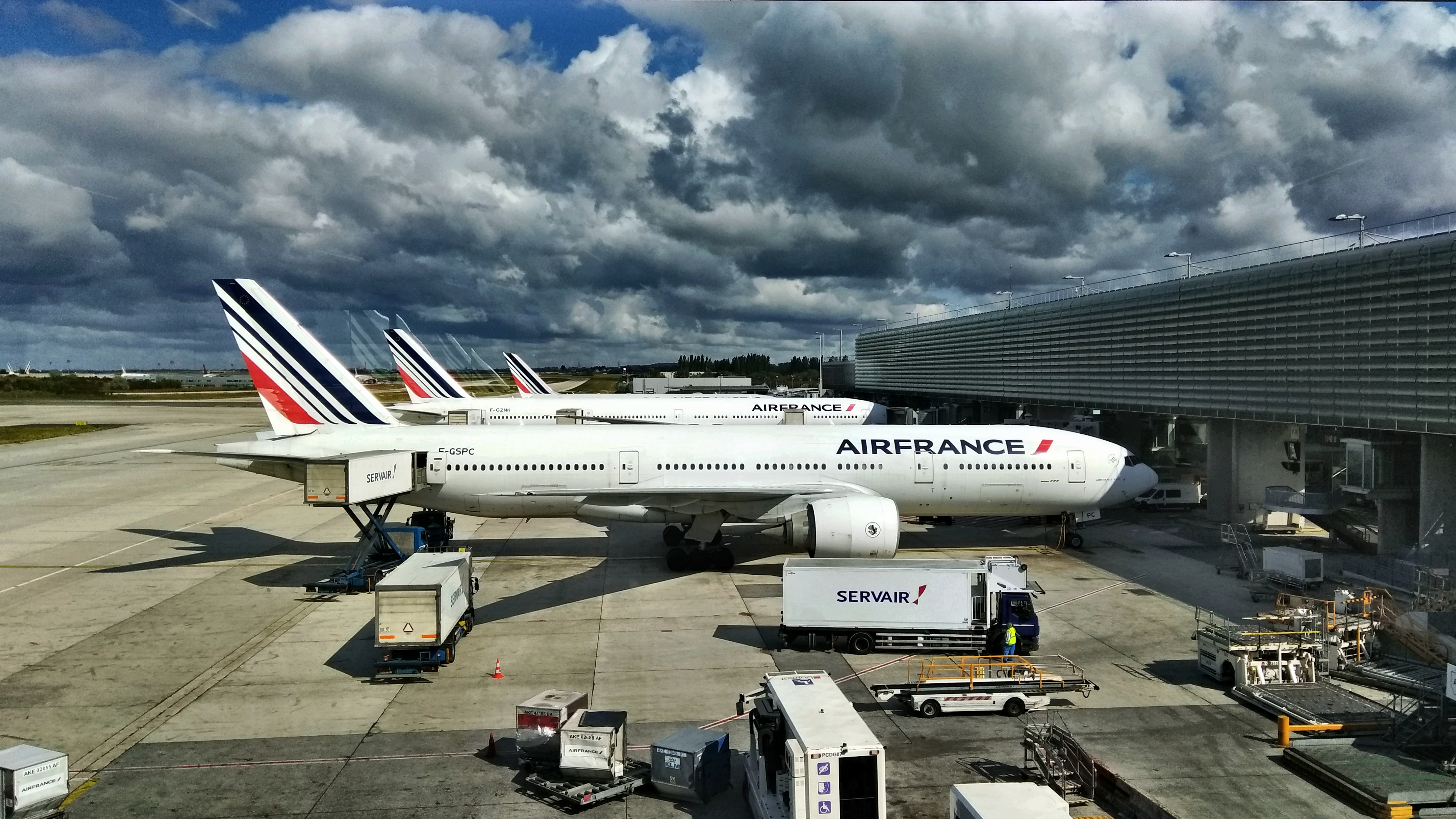 Airplanes of the company "Air France" at the Charles de Gaulle International Airport, Paris, France.